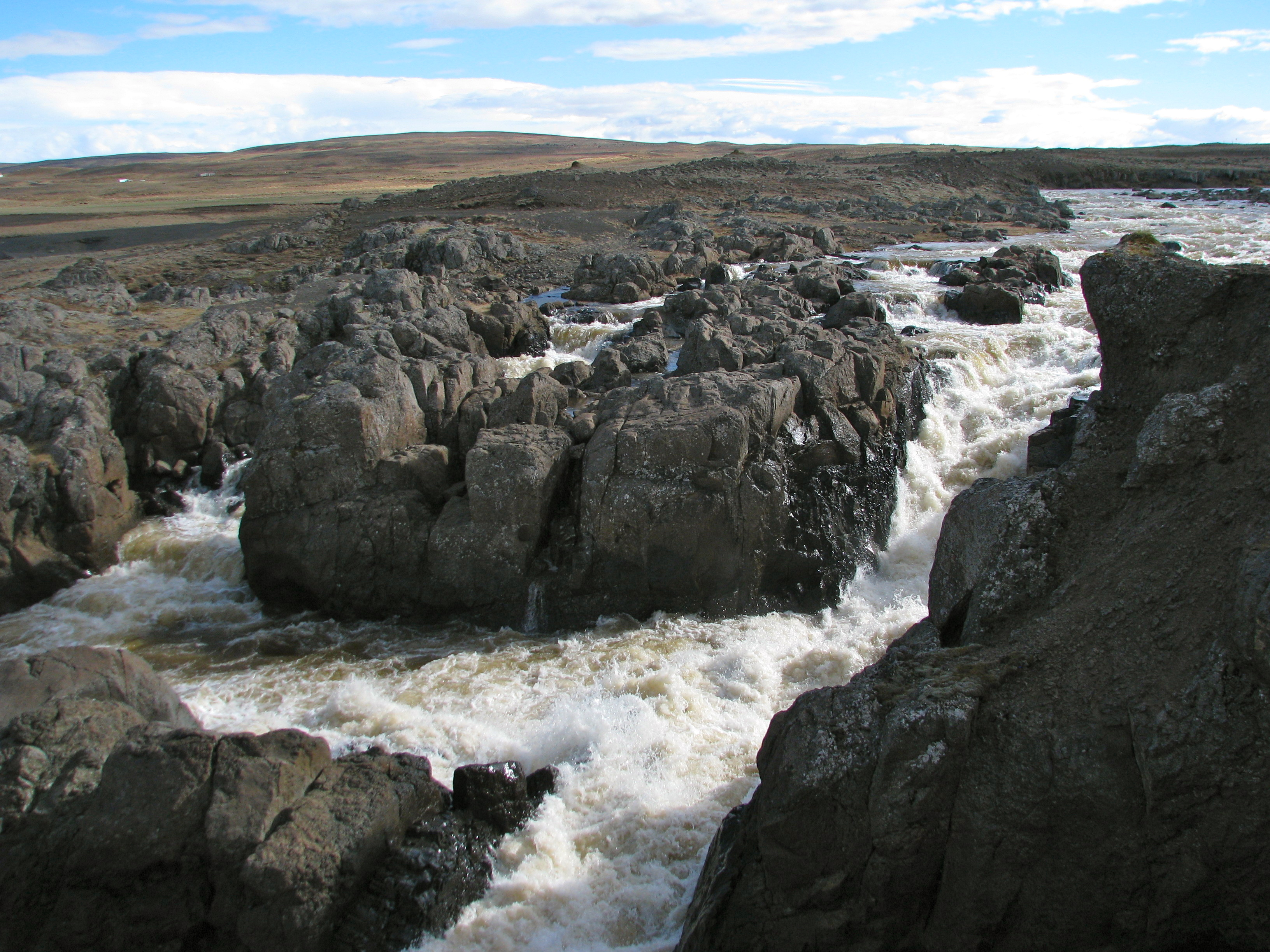 The Kerafossar, a waterfall in the northern part of Iceland.